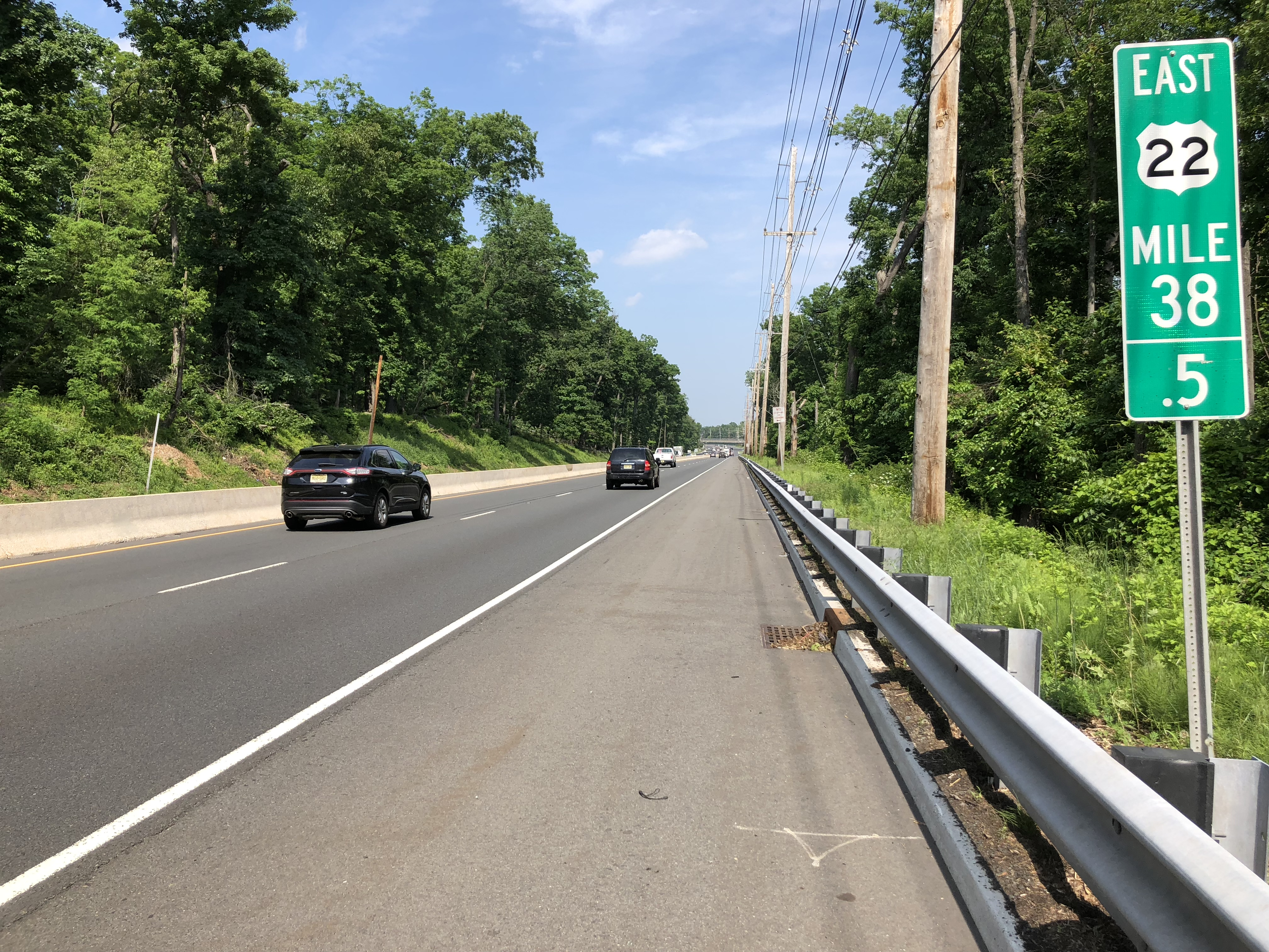 View east along U.S. Route 22 between Vosseller Avenue and Somerset County Route 527 (Mountain Avenue) in Bound Brook, Somerset County, New Jersey